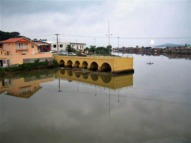 Imaruí River, São José, Santa Catarina, Brazil. Photo taken by Cesario Simões Junior in 2004.